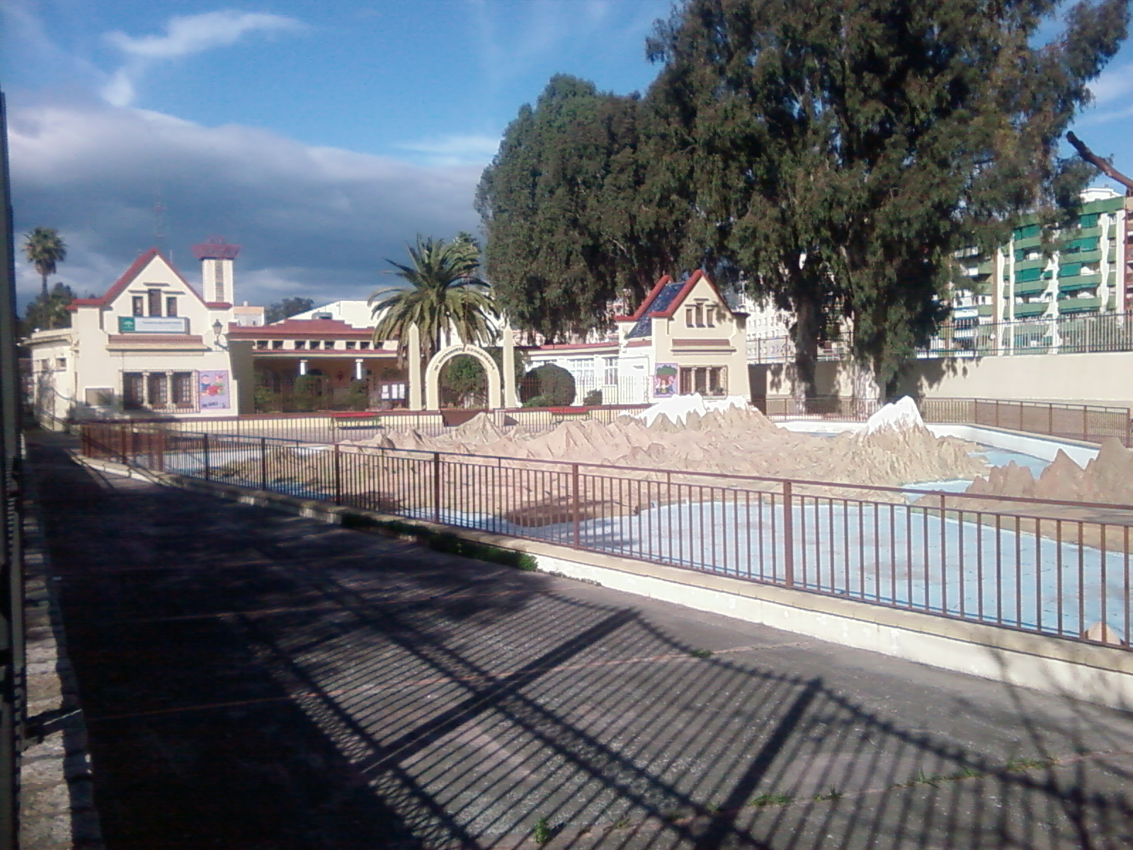 Preschool "Martiricos" (a.k.a. The school of the map) in Málaga, Spain. View of the relief map of the Iberian Peninsula.